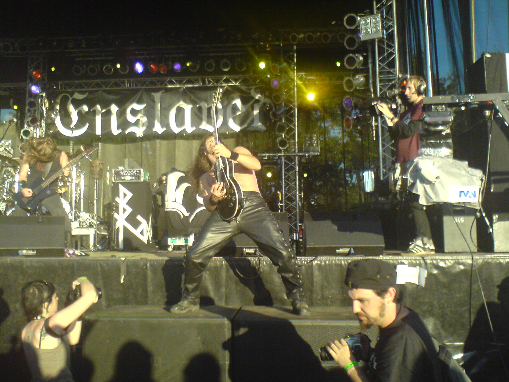 Camera phone image of Enslaved performing at the Wacken Open Air 2007. Visible band members: Grutle Kjellson (headbanging) and Arve Isdal (in front)